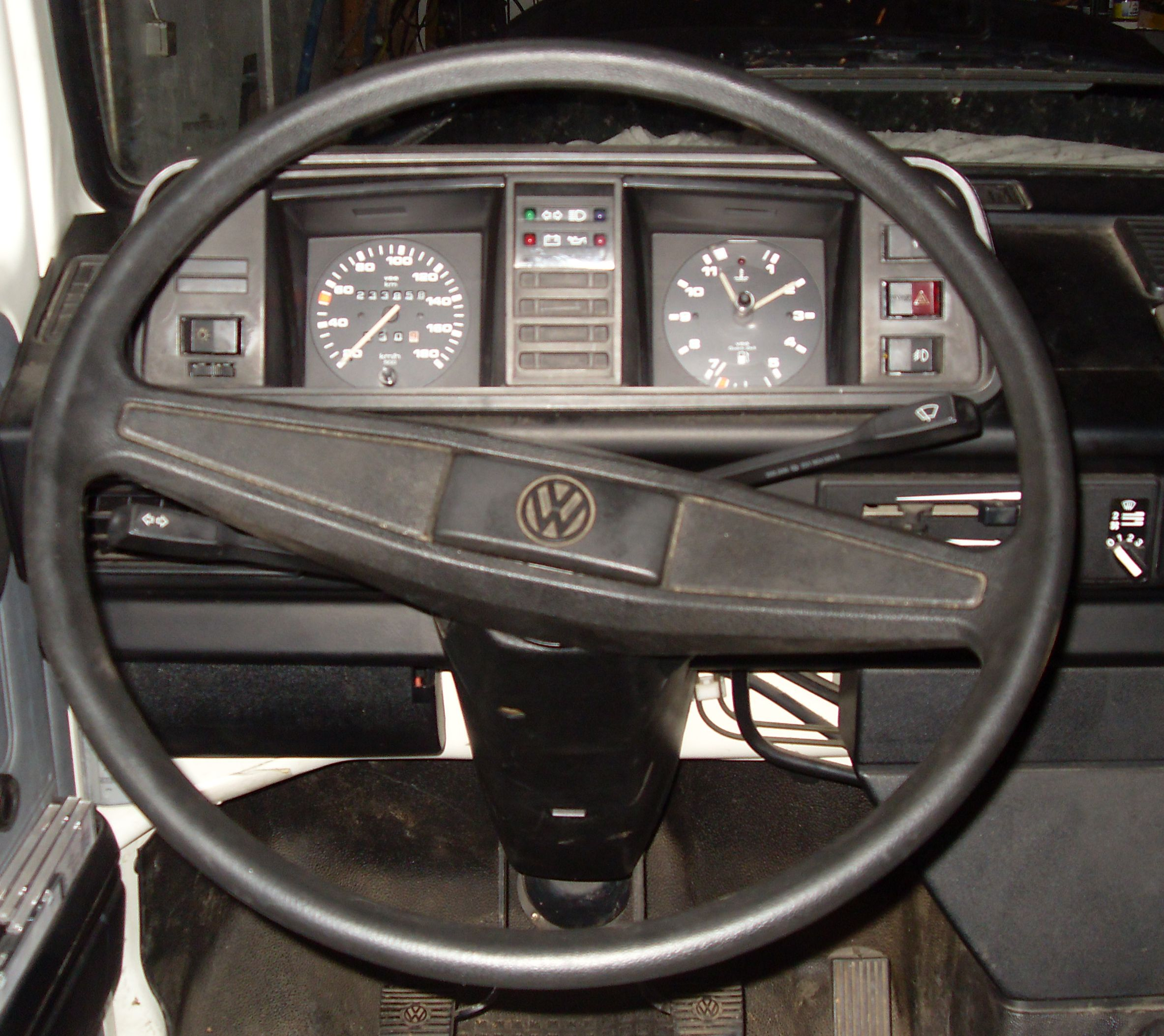 The T3 cockpit from 1989